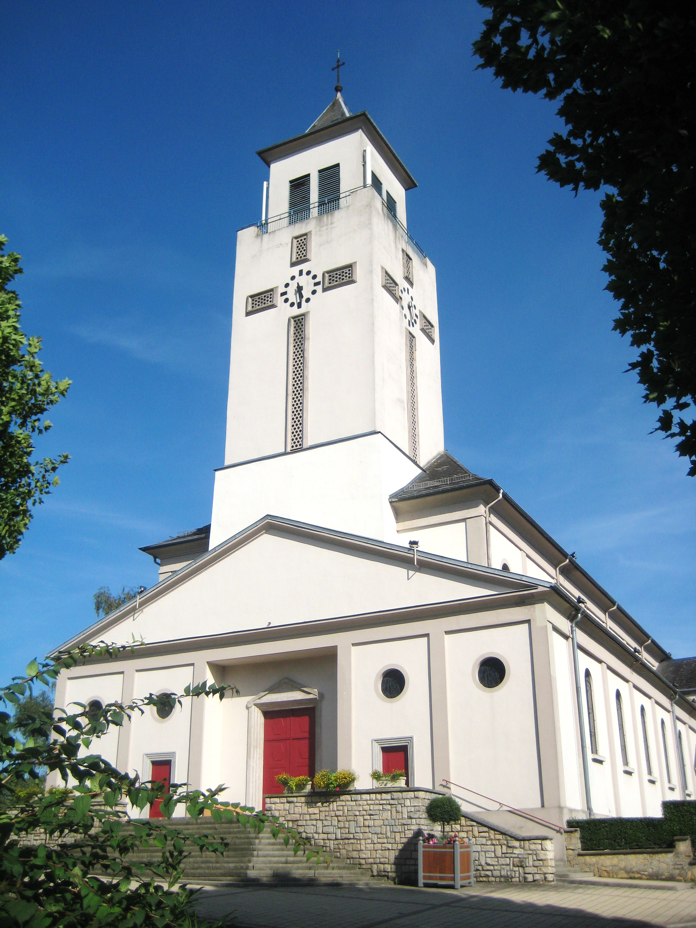 Description eglise Nilvange Date25 August 2011Sourcemon appareil photoAuthorAimelaimePermission(Reusing this file) eglise Nilvange